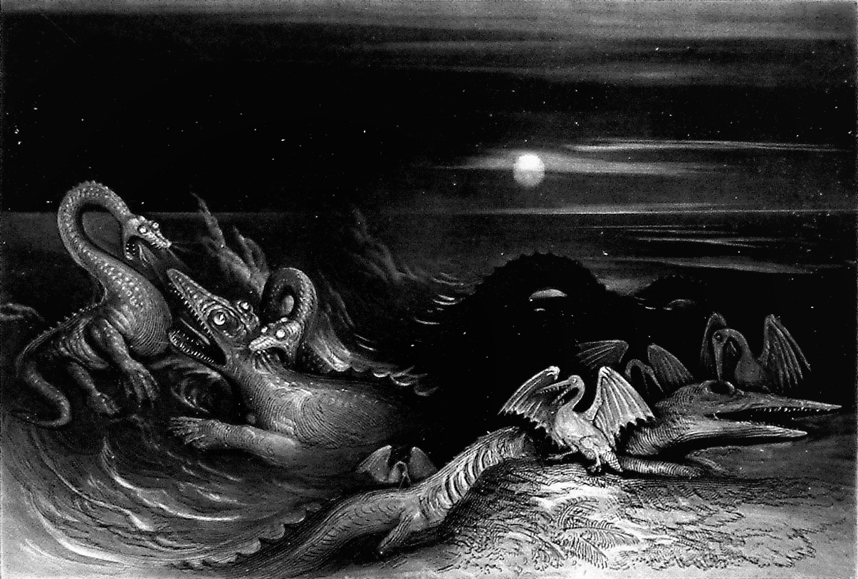 Plesiosaurus battling Temnodontosaurus (Oligostinus), front piece the Book of the Great Sea-Dragons by Thomas Hawkins.